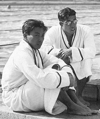 Masanori Yusa and Masaharu Taguchi are interviewed after winning the gold medal in the Swimming Men's 4x200m Freestyle Relay during the Berlin Olympic at Swimming Stadium on August 11, 1936 in Berlin, Germany.